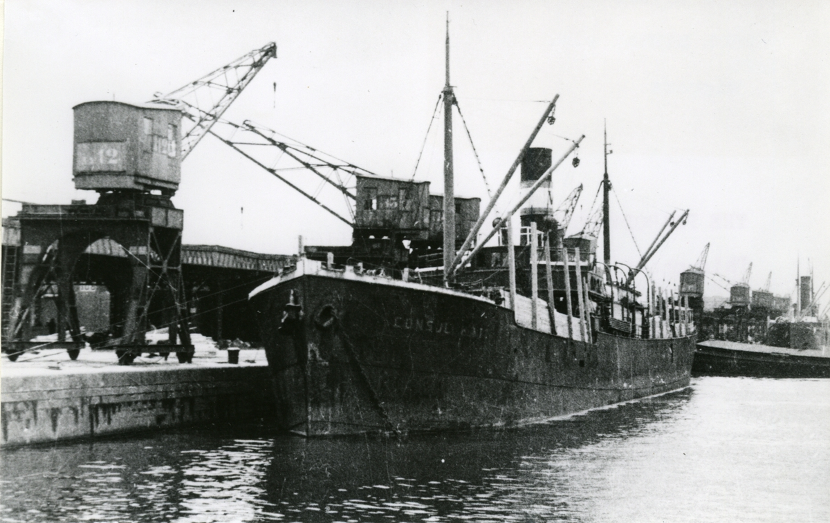 General cargo ship CONSUL HINTZ built at shipyard William Gray & Company, West Hartlepool, as PARKLANDS (yard № 215, launched: 10-06-1880, completed: 06-1880), later names: 1891 THYRA, 1922 MARIE FERDINAND, 1927 CONSUL HINTZ, BU after collision with the quay at Wilhelmshaven 06-06-1941.